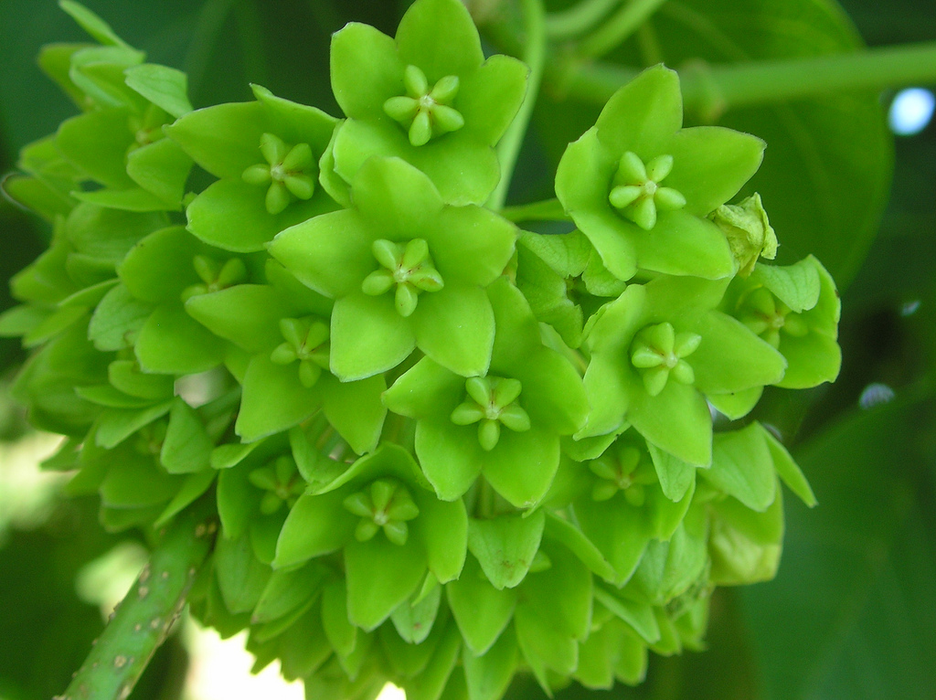 Fy; Asclepiadaceae Order: Gentianales Series: Bicarpellatae Sub class: Gamopetalae Class: Dicotyledons Distribution: t is common on hedges and bushes in jungles of Asia It is a woody twiner. with watery sap.Perennial, Leaves in opposite decussate phyllotaxy.Leaves ovate and cordate at the base. Flowers pale green in dense drooping axillary umbels. Corolla lobes overlapping to the right in the bud.corona -processes5, hard, adnate at the base to the staminal column, staminal column arising from the base of the corolla tube, pollen masses erect. Follicles brown woody, blunt at the apex, 10 cm long.Tender twigs are emetic. The plant also contains some anti cancer principles. See the beautiful green bloom.